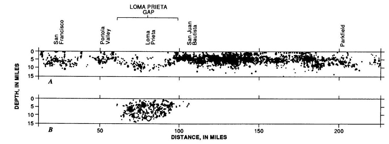 Seismicity along the San Andreas fault before and after the Loma Prieta earthquake